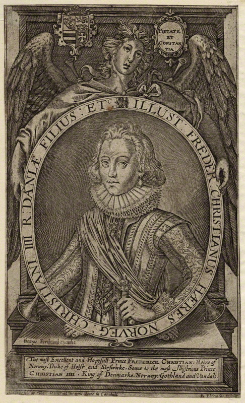 Frederick III, King of Denmark line engraving, early 17th century